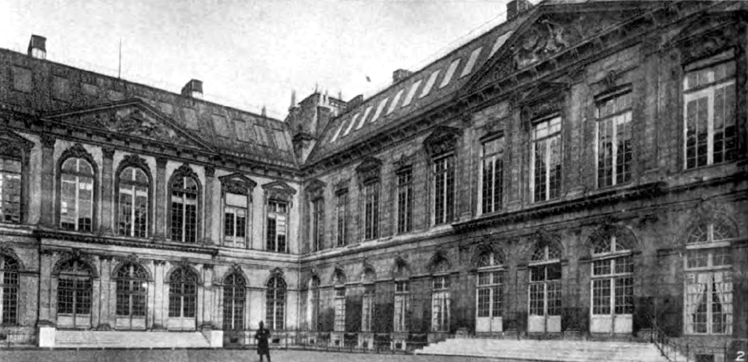 Photograph of the Milkau Bibliothèque Nationale, Cour d'honneur, Paris